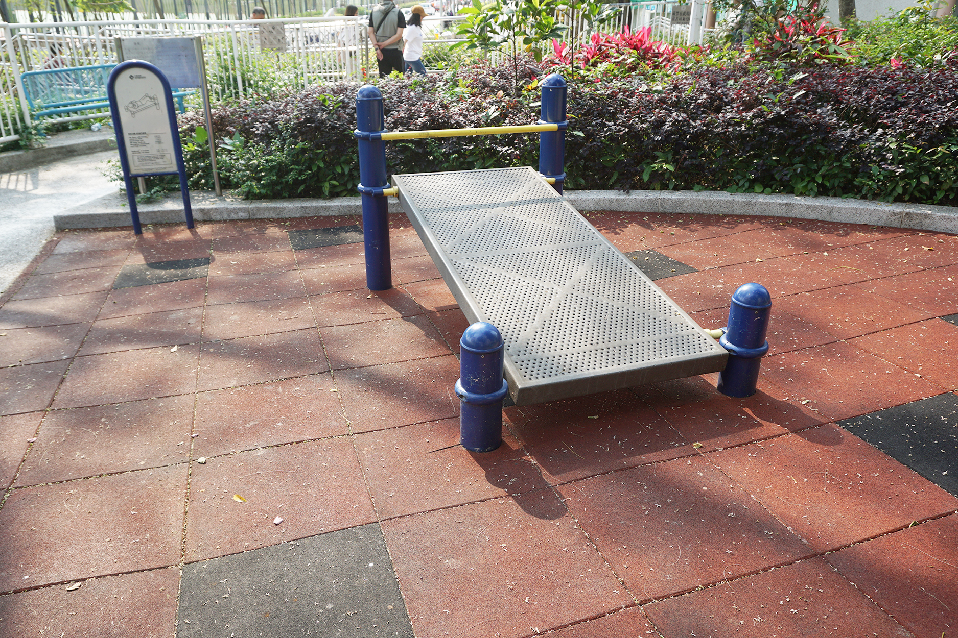 Tsui Ping (South) Estate in Kwun Tong, Hong Kong.